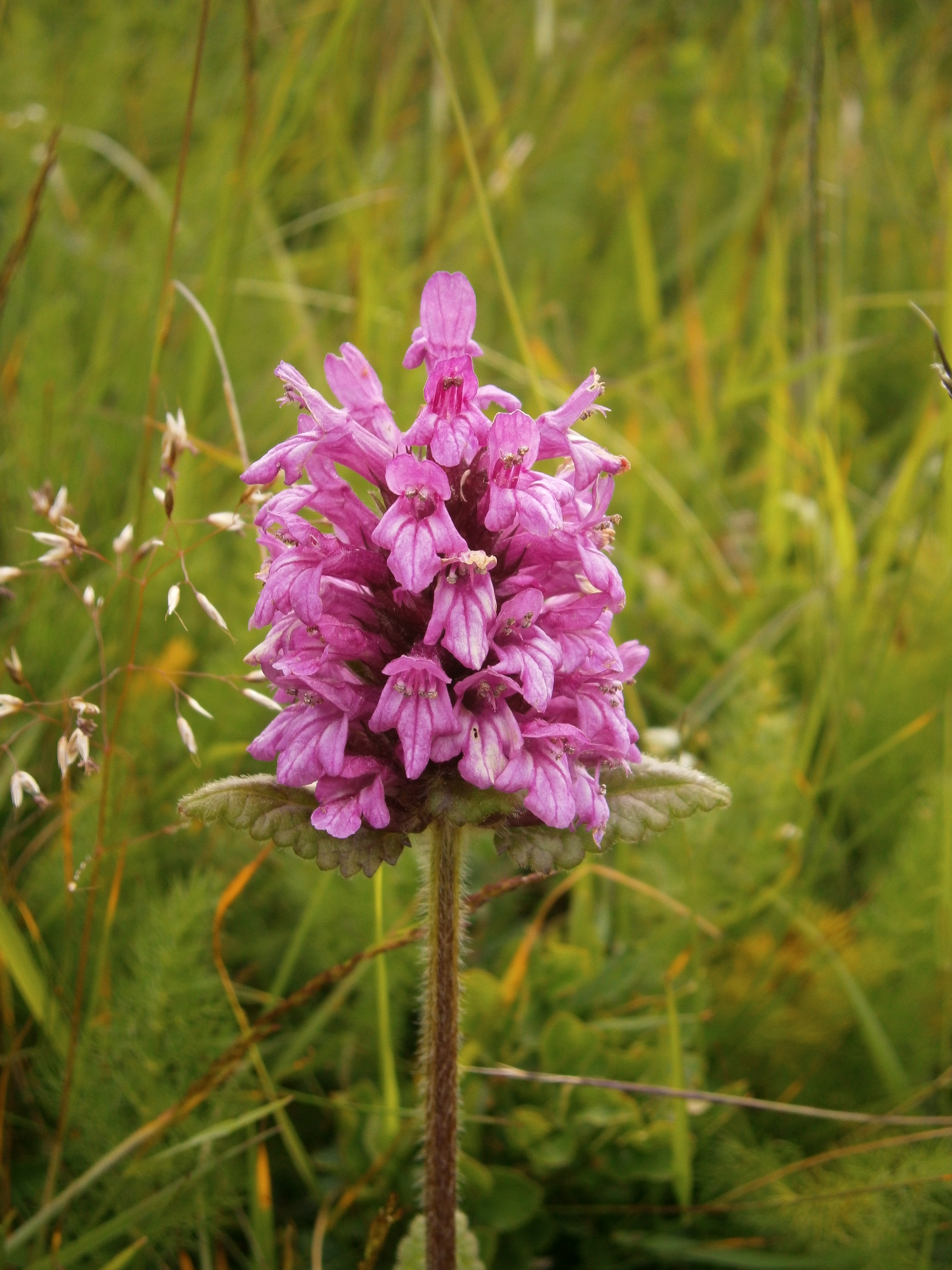 Stachys pradica